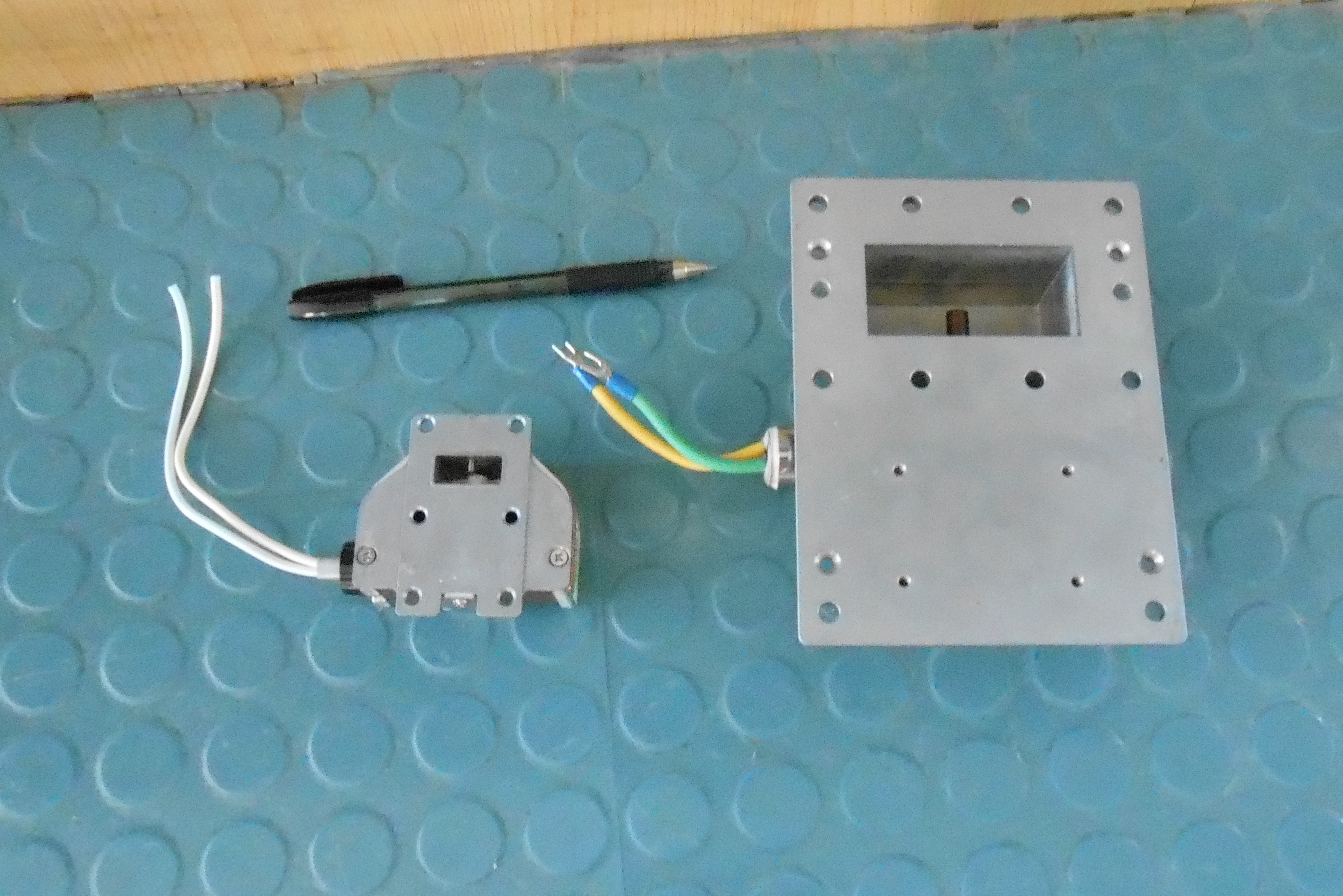 Forth generation magnetrons from ship's radars. Smaller is from X-band radar (vavelength 3 cm), bigger one from S-Band radar (10 cm).